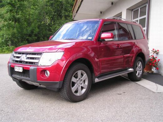 Mitsubishi Pajero fourth generation